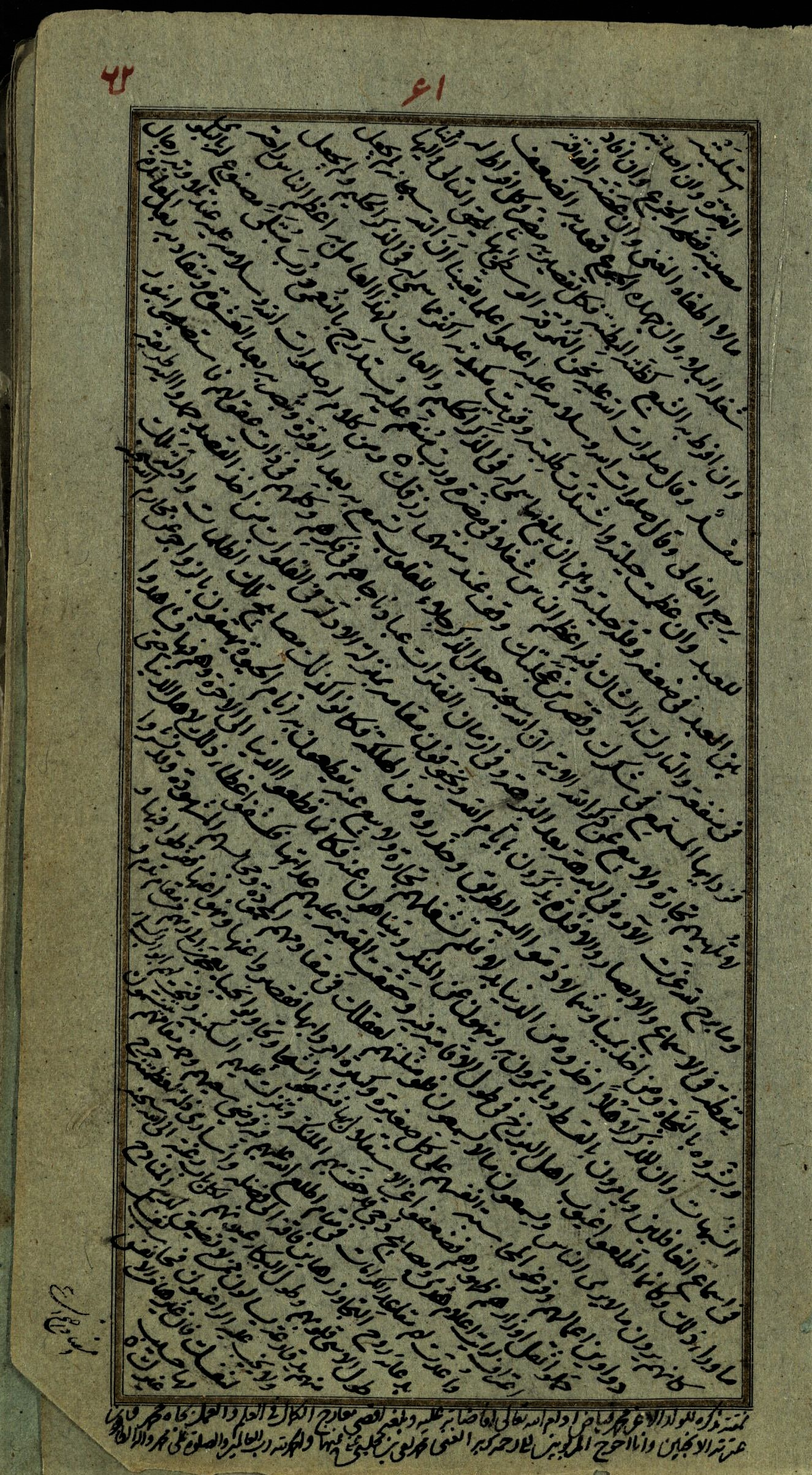 Author: Mohammad-Taghi Majlesi A Note by Mohammad-Taghi Majlesi in literary collection compiled by Mirza Muhammad-Fayaz Sabzevari Central Library and Documentation Center of the University of Tehran Number: 9707, page: 61 (front)